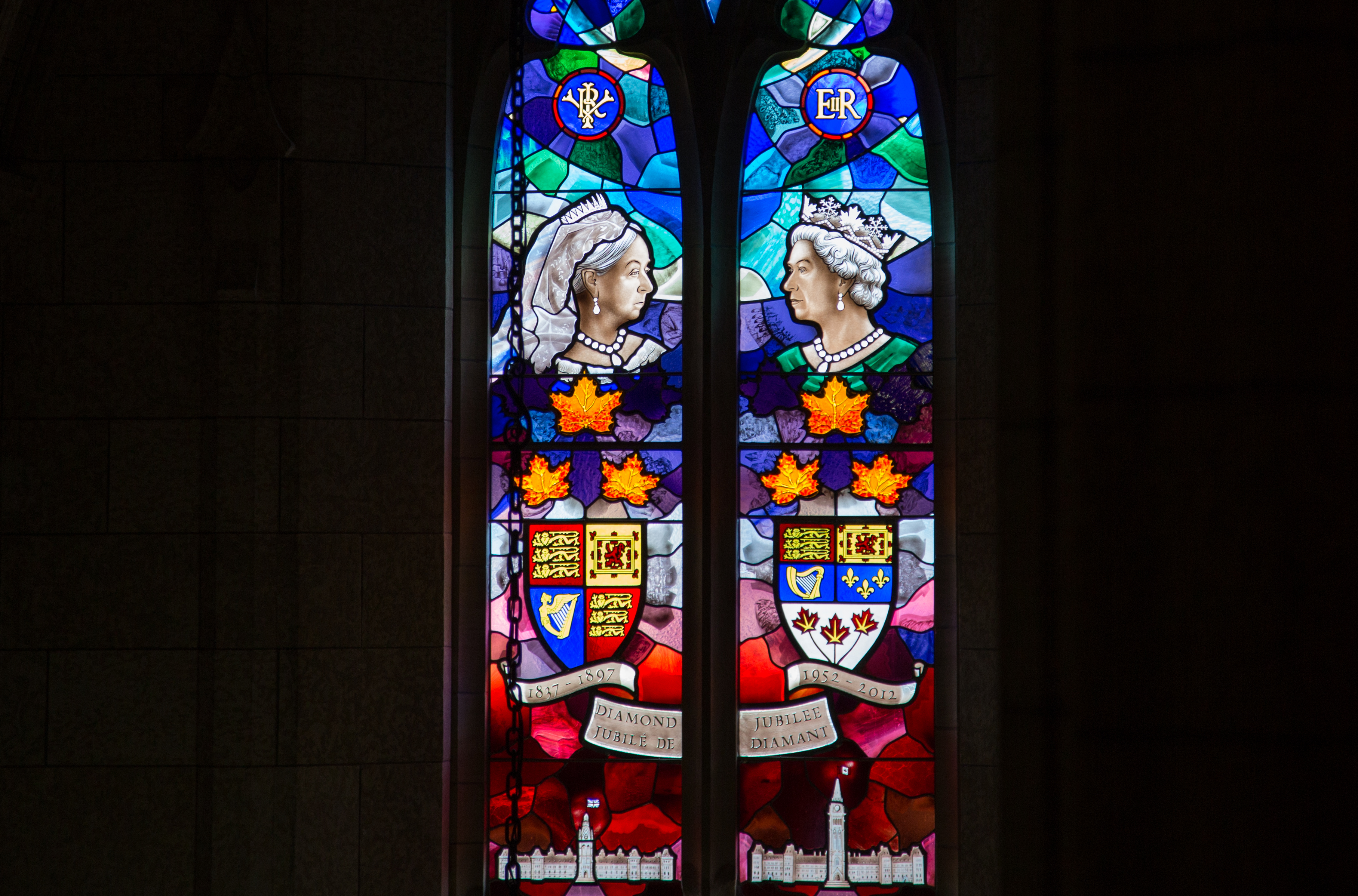 Centre Block at Parliament Hill - Ottawa, Ontario, Canada